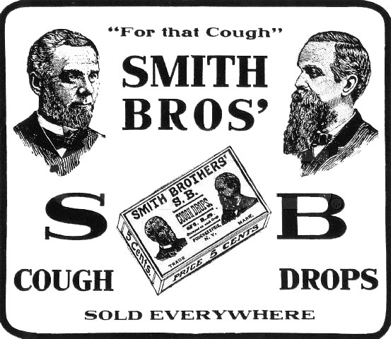 Smith Brothers cough drops advertisement